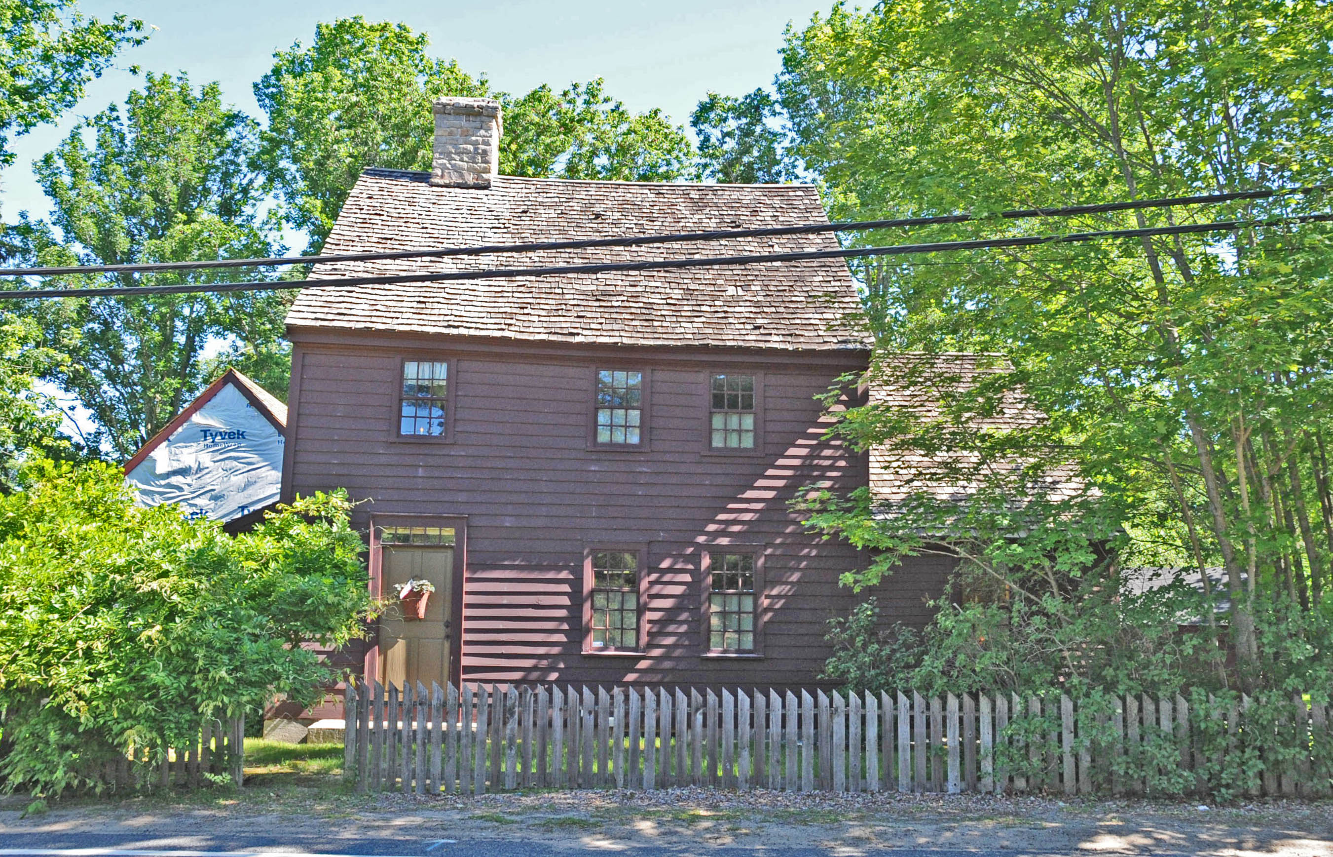 SOLOMON P. WELLS HOUSE – CIRCA 1789